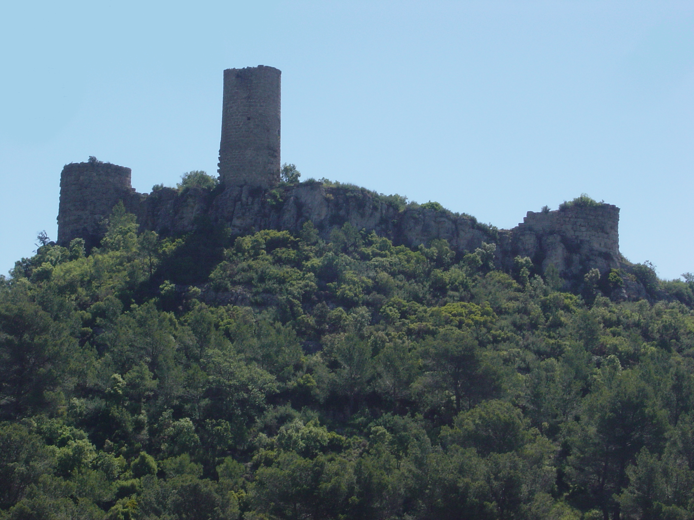 Saburella Castle (Querol)